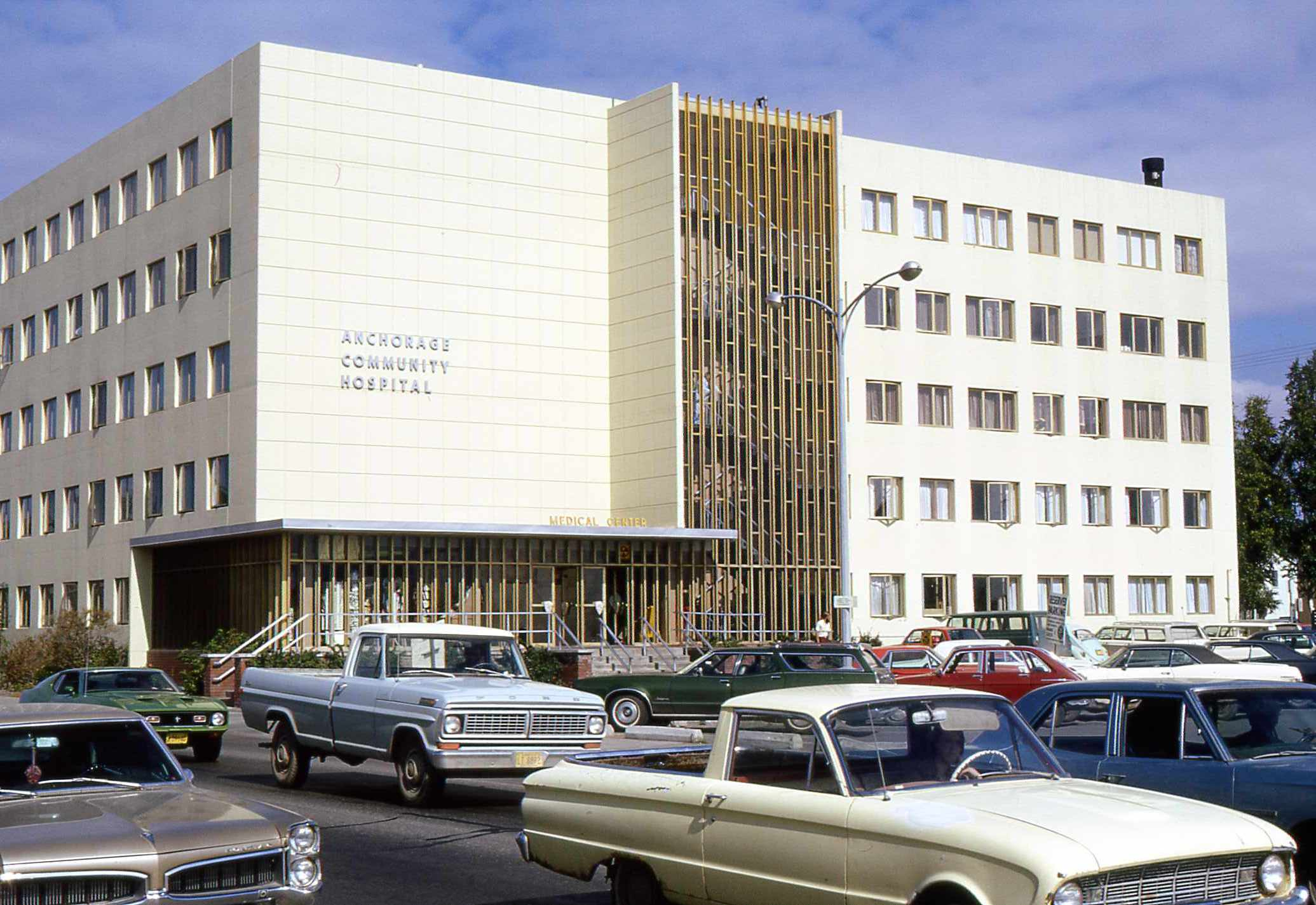 United States of America, Alaska, Anchorage. The Community Hospital in 1972.